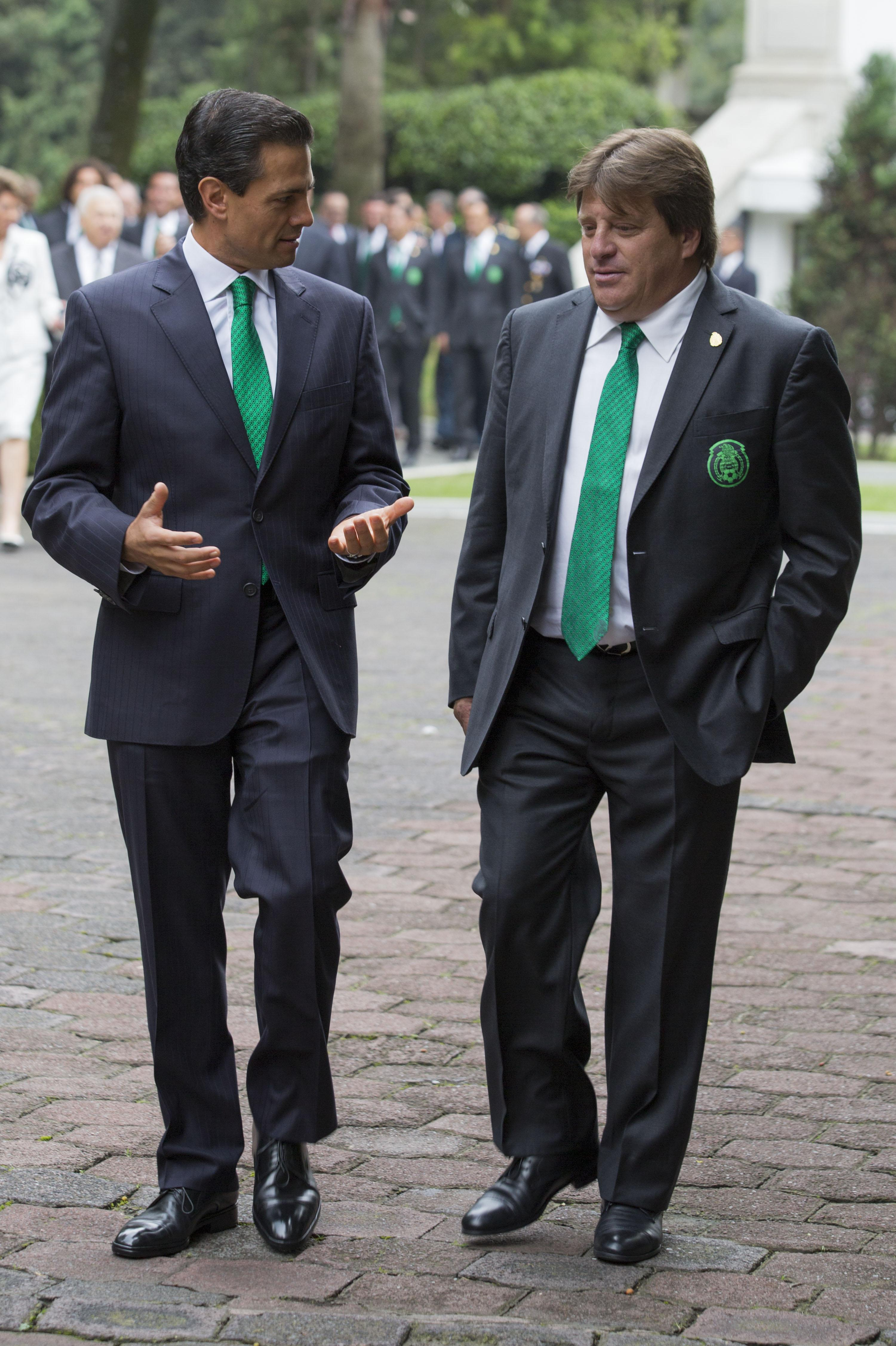 Miguel Herrera and Mexico President Enrique Peña Nieto.